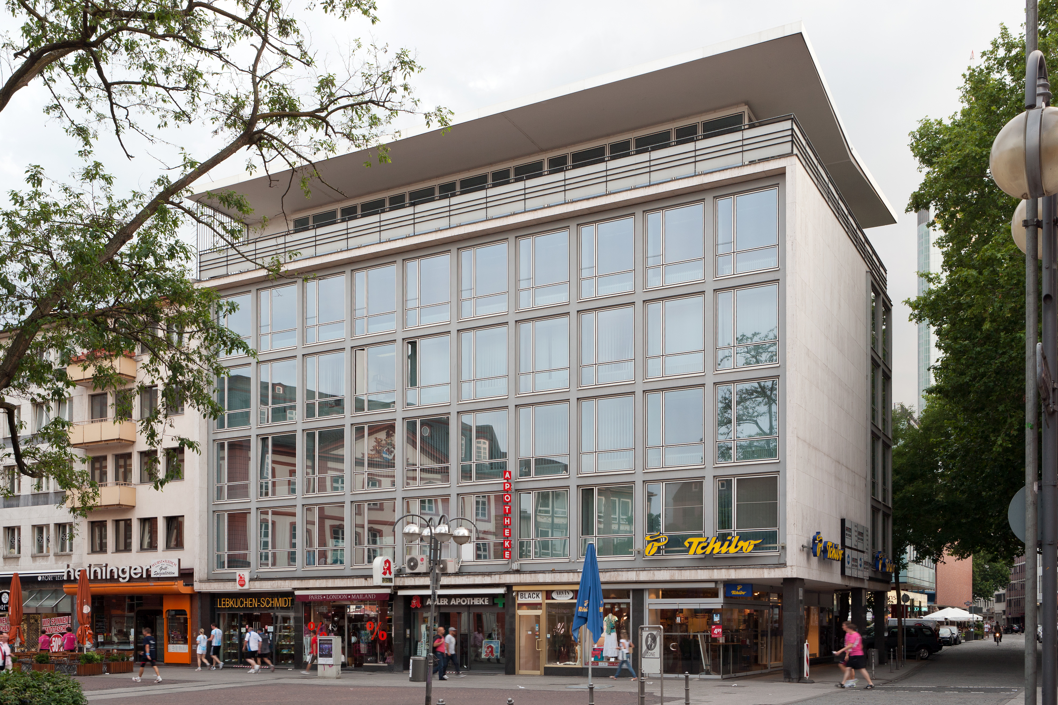 Frankfurt on the Main: Bleidenstraße (Bleiden Street) 1 / Neue Kräme (New Market) 33 as seen from the northeast